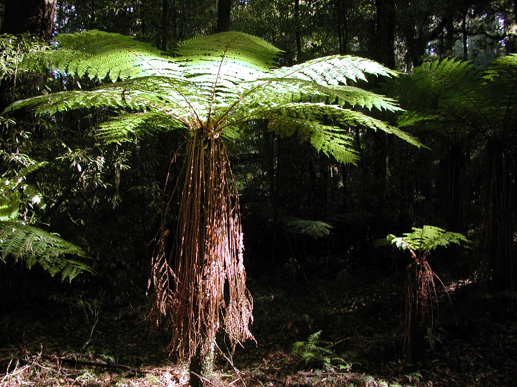 Sunlit tree fern in native forest in New Zealand.